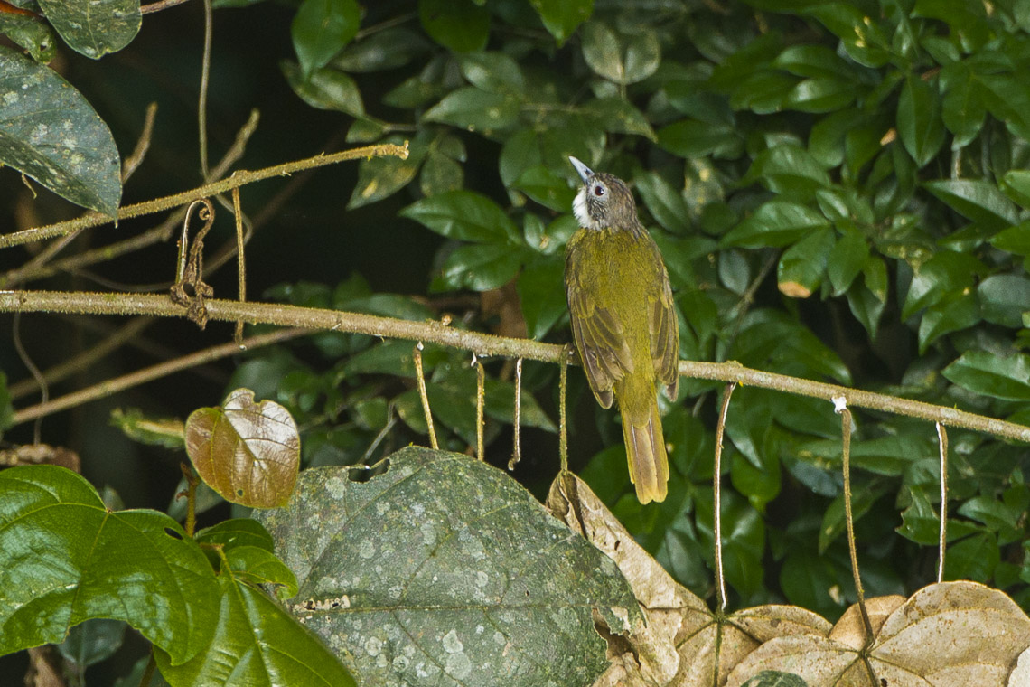 A Red-tailed Greenbul (Criniger calurus) in the Kakum National Park (Ghana)